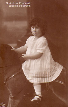 Princess Eugenia Radziwill as a child.